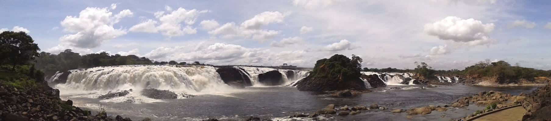 Panoramic view of La Llovizna Falls. La Llovizna Park. Guayana City, Bolívar State. Venezuela.